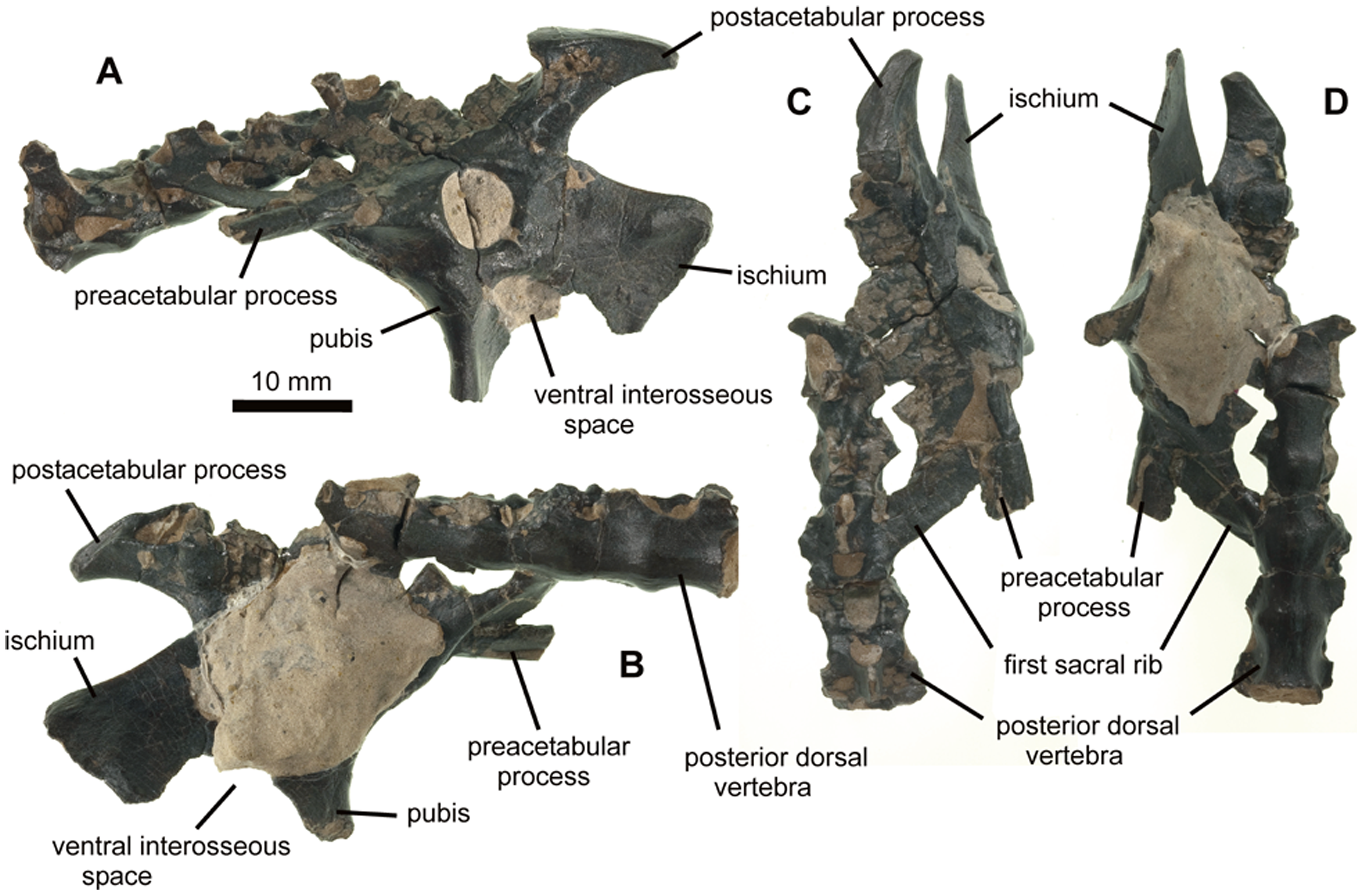 NHMUK PV R36621, holotype of Vectidraco daisymorrisae (except right ischium: see Figure 2). A, specimen as seen from left side, showing lateral surface of left side of pelvis and associated vertebrae; B, specimen as seen from right side, showing medial surface of left side of pelvis and associated vertebrae; C, specimen in dorsal view, anterior pointing down the page; D, specimen in ventral view, anterior pointing down the page.